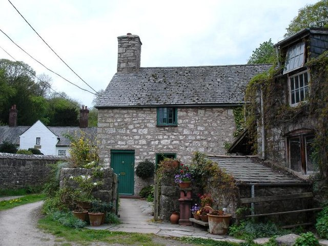 Llanrhaeadr. Llanrhaeadr, a small hamlet to the south of Denbigh. The stone cottage joins a local pottery, with the alms houses seen the rear left.